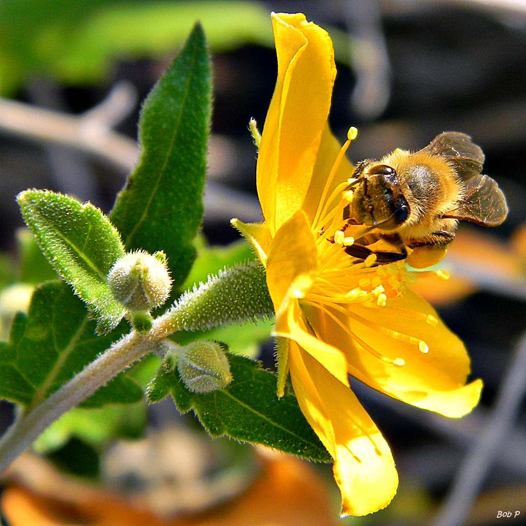 Near the beach at Juno, I found a small cluster of Poorman's-patch (Mentzelia floridana) blooming. Honey bees found them too! Juno Dunes Natural Area, East trail, Palm Beach County.